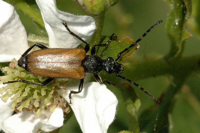 Picture taken in Commanster, Belgian High Ardennes . Species: Paracorymbia maculicornis